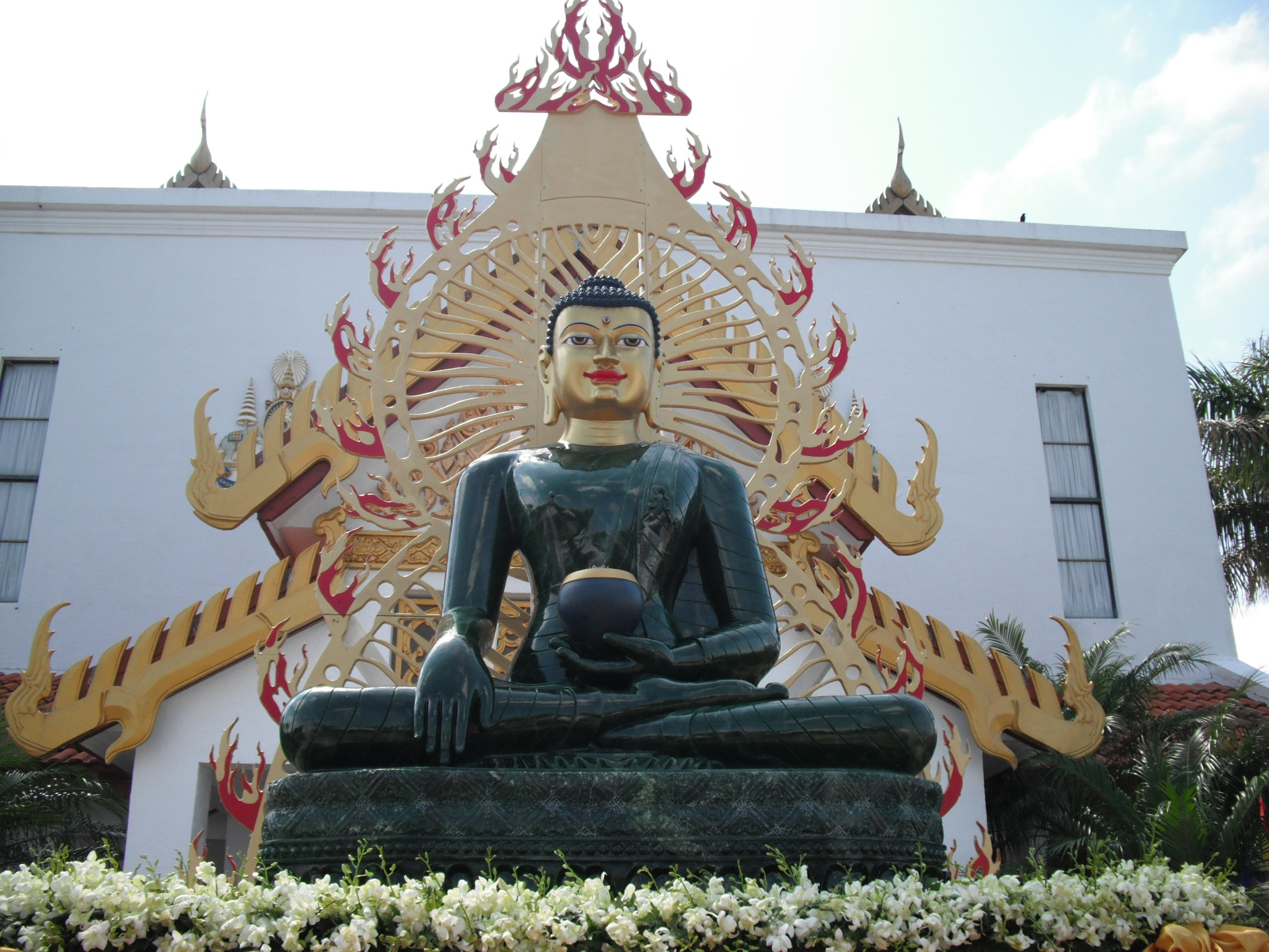 Jade Buddha for Universal Peace at Wat Buddharangsi in Miami, Florida